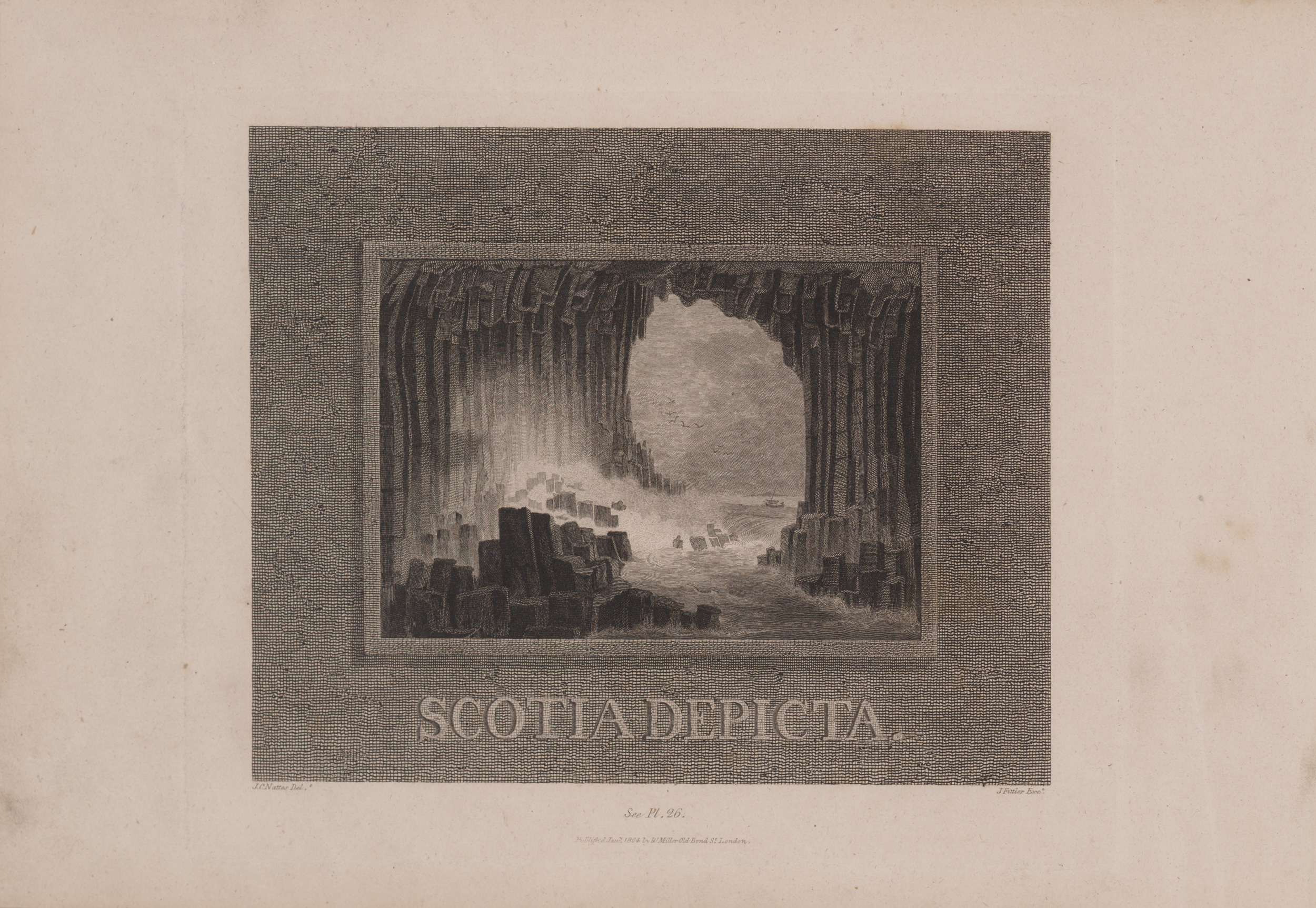 Frontispiece - Fingal's Cave - John Claude Nattes made drawings of suitable scenes on the spot; etchings are by James Fittler.